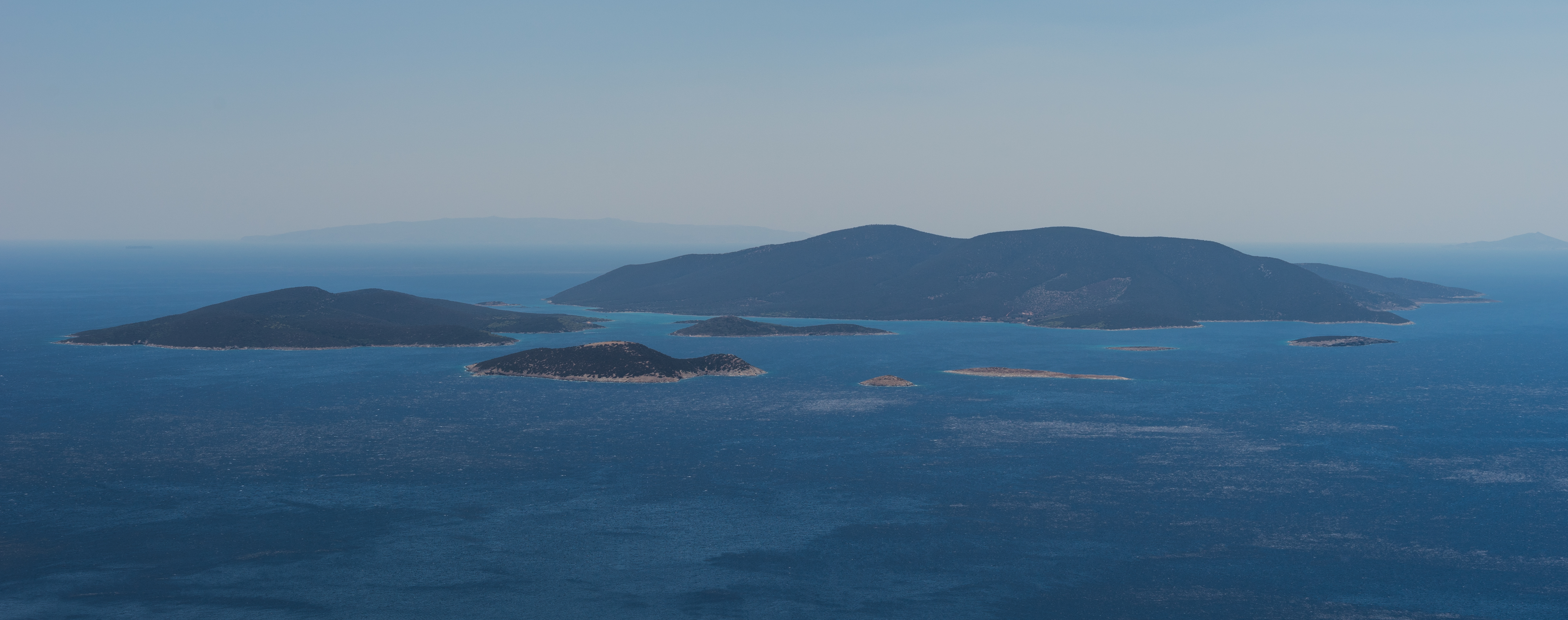 Petalii archipelago, off the town of Marmari, Euboea, Greece